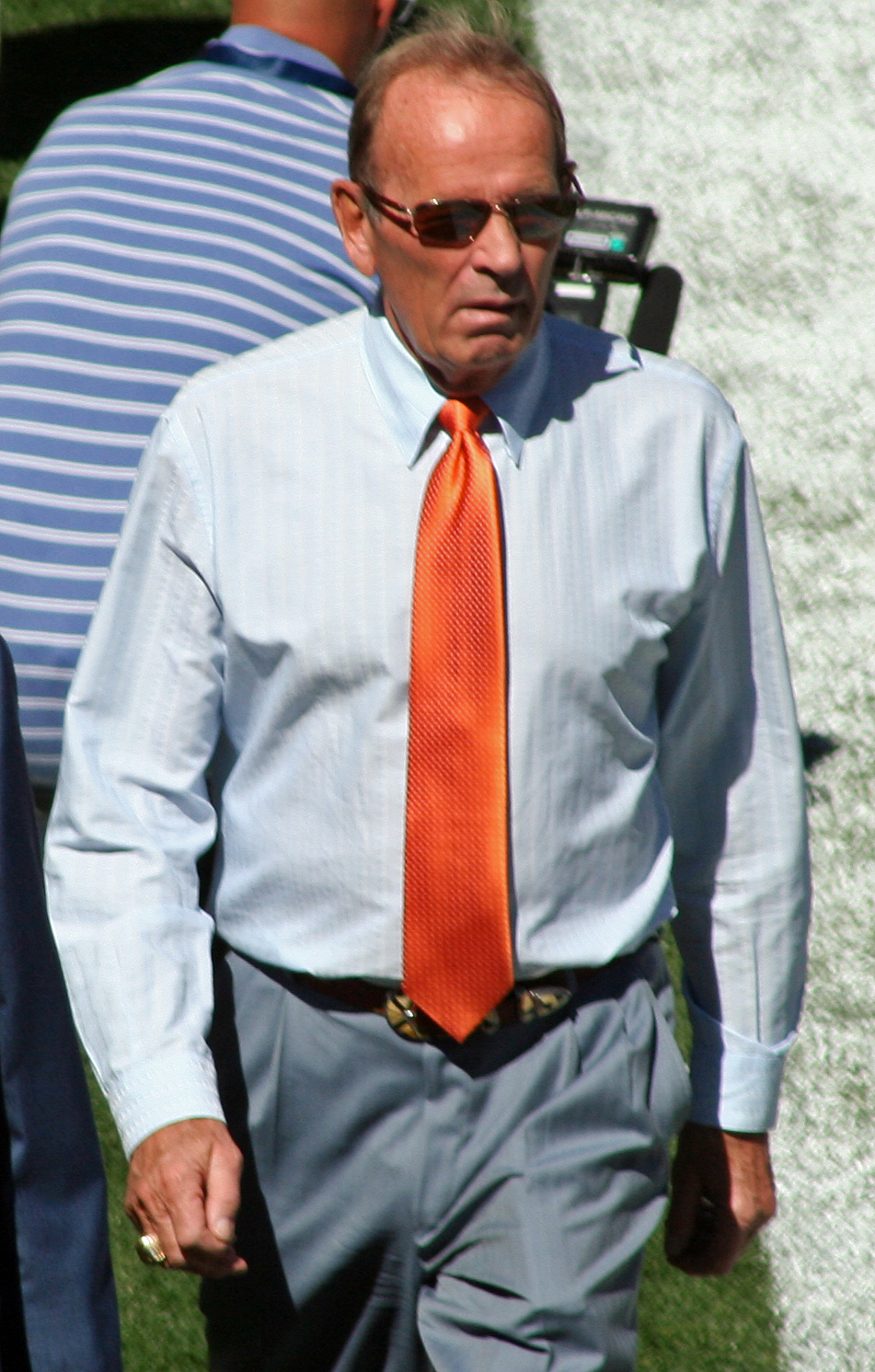 Pat Bowlen, the owner of the Denver Broncos American football team.